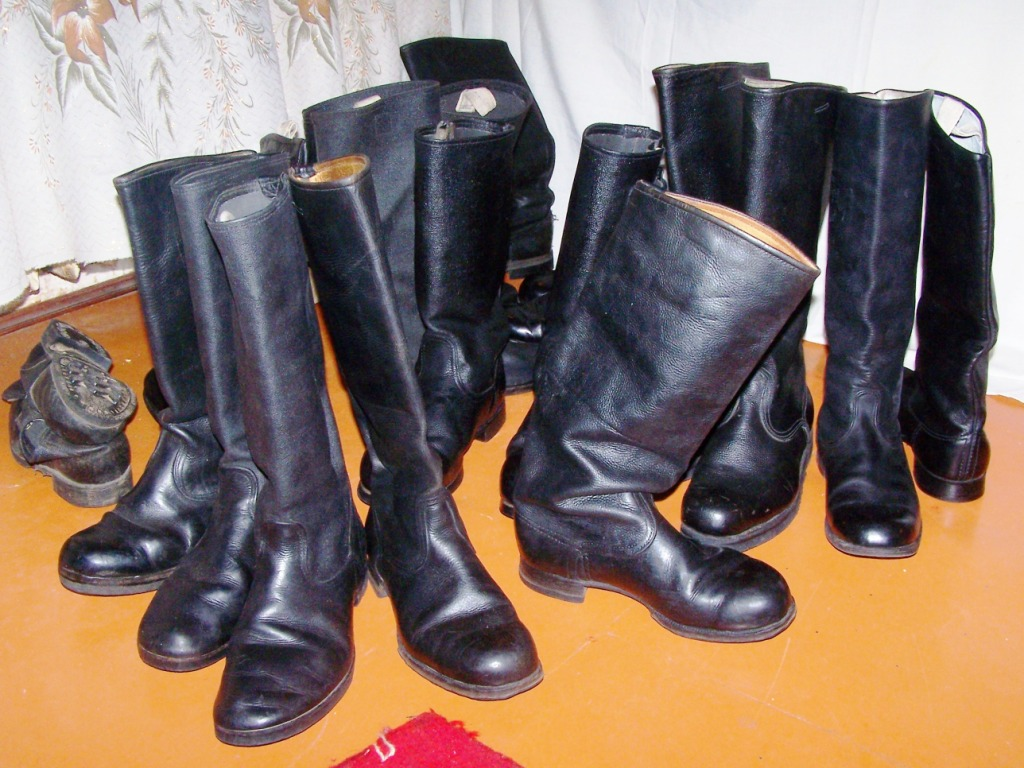 Сапоги русские кирзовые, яловые, хромовые